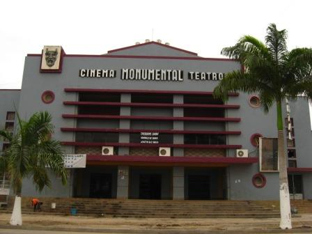 Cine Teatro Monumental, Benguela